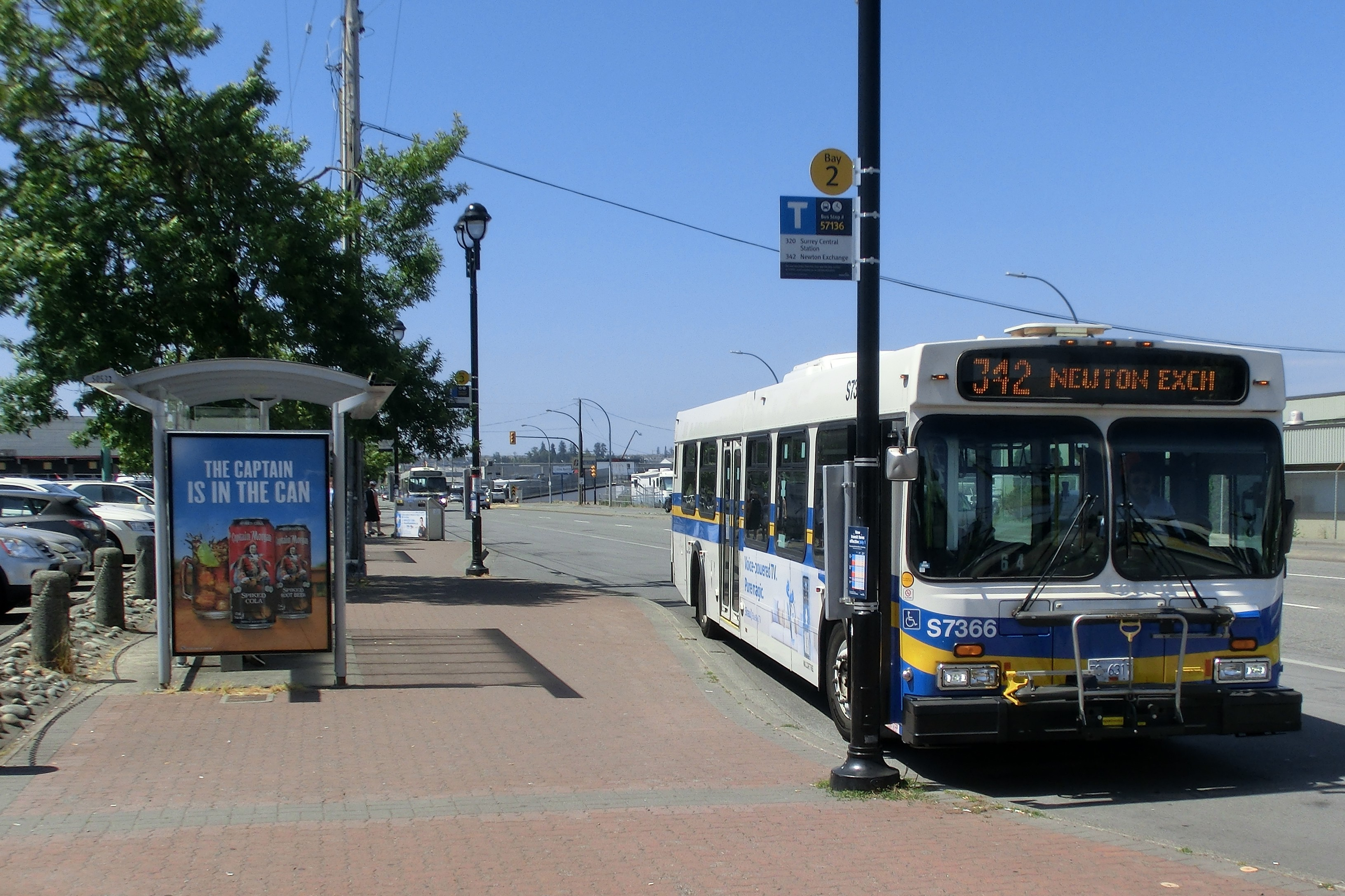 Langley Centre bus exchange